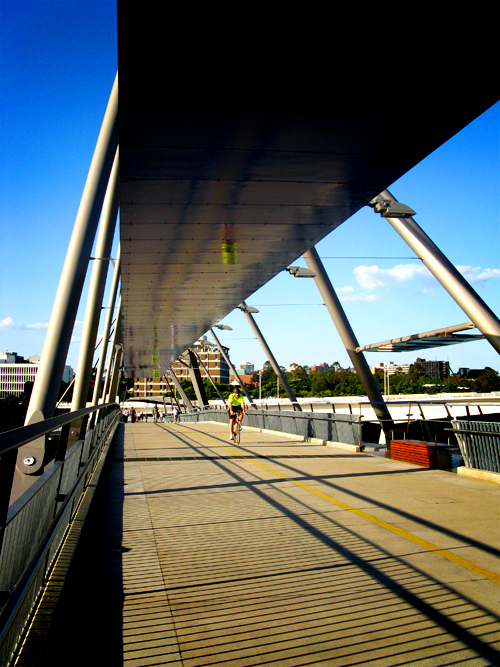 Bicycle riding over the Goodwill Bridge.